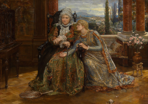 Ellen Terry and Fanny Stirling by Anna Massey Lea Merrit in 1882 play